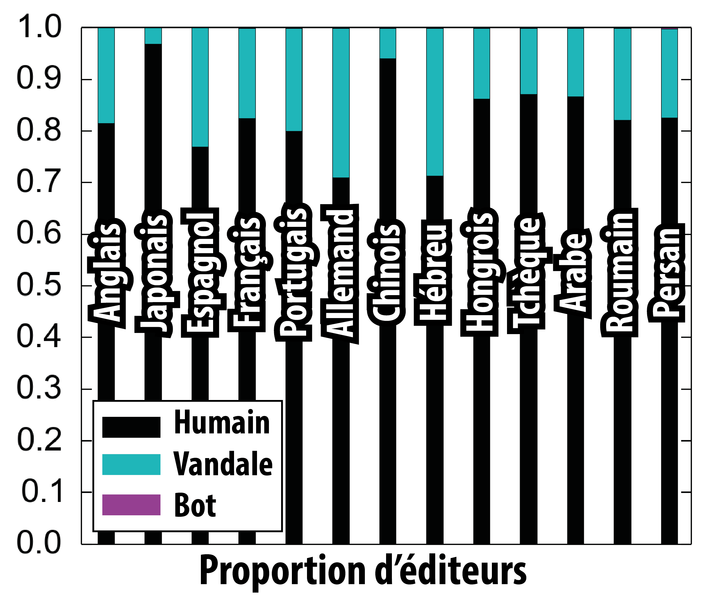 Proportion of editors on wikipedia which are human, vandal and bots, translated into french from paper